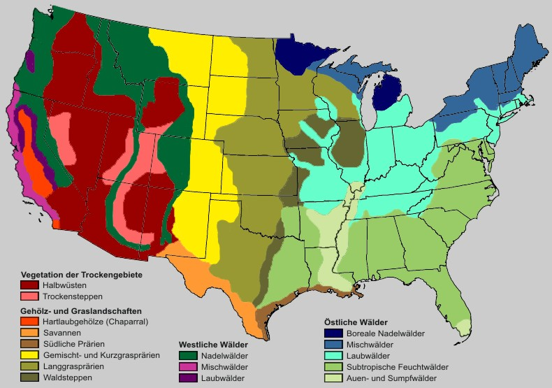 Map of Potential Natural Vegetation of the USA